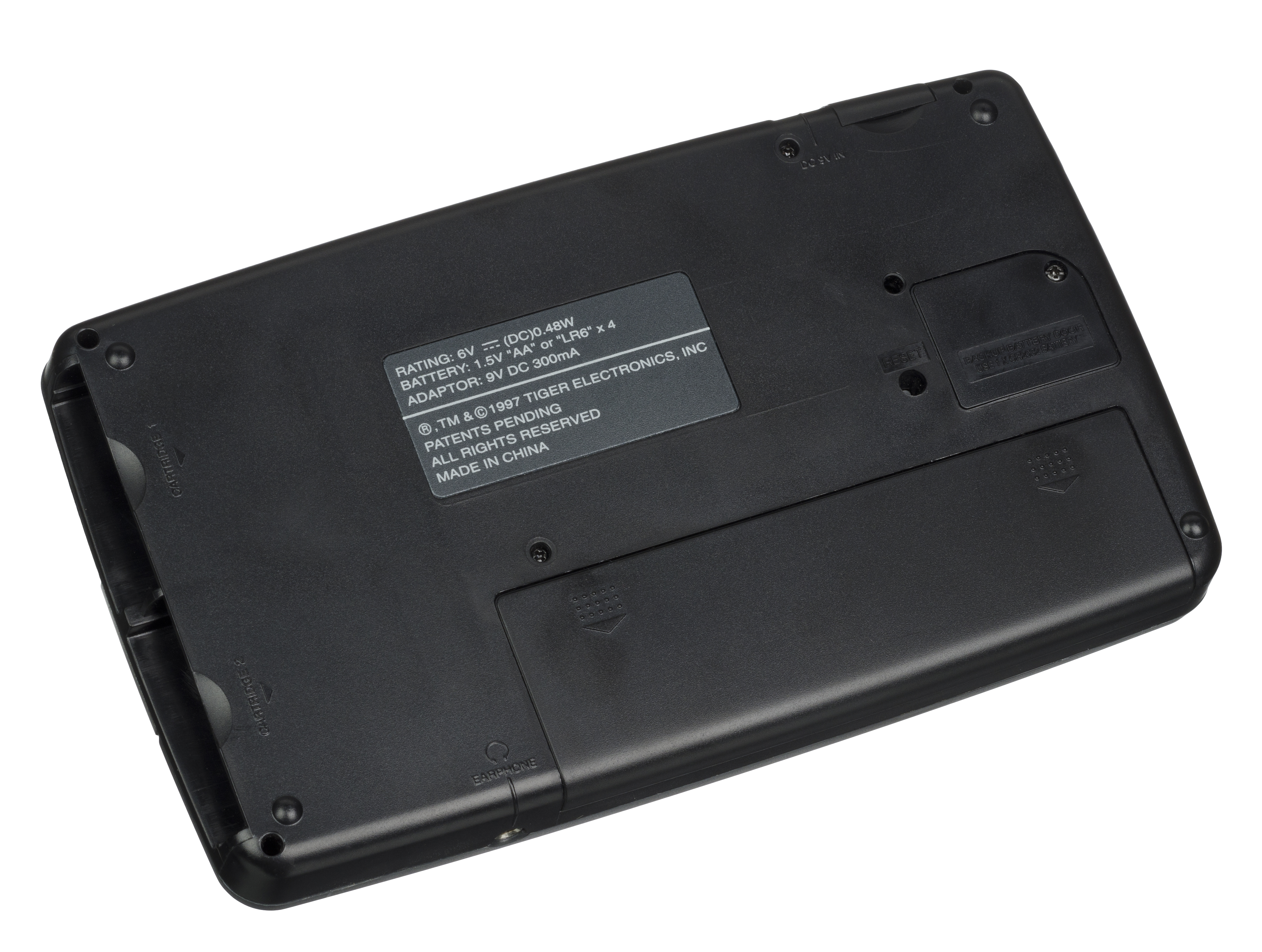 The Tiger , a handheld gaming console released in 1997. The featured a black & white touchscreen, dual cartridge slots and some PDA-style functions.